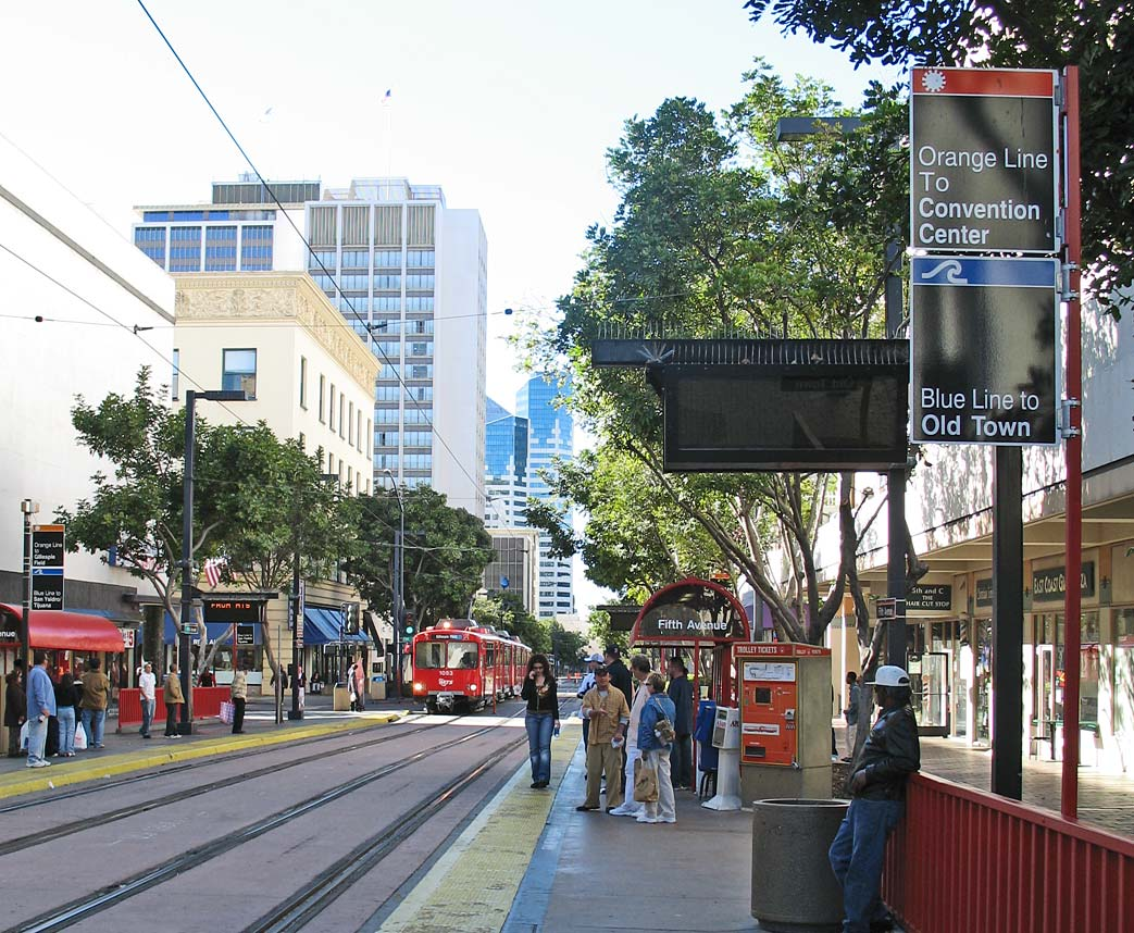 Fifth Avenue Trolley Station